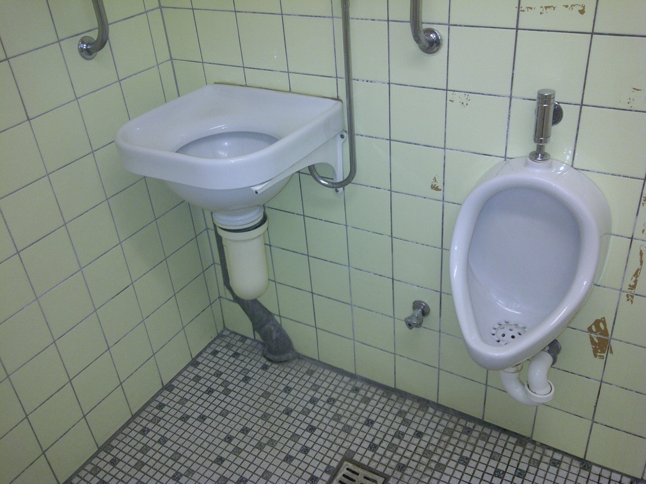 A strange sanitary installation, a Speibecken, in the Versuch- u. Lehranstalt für Brauerei in Berlin, AKA the Institut für Gärungsgewerbe und Biotechnologie zu Berlin.